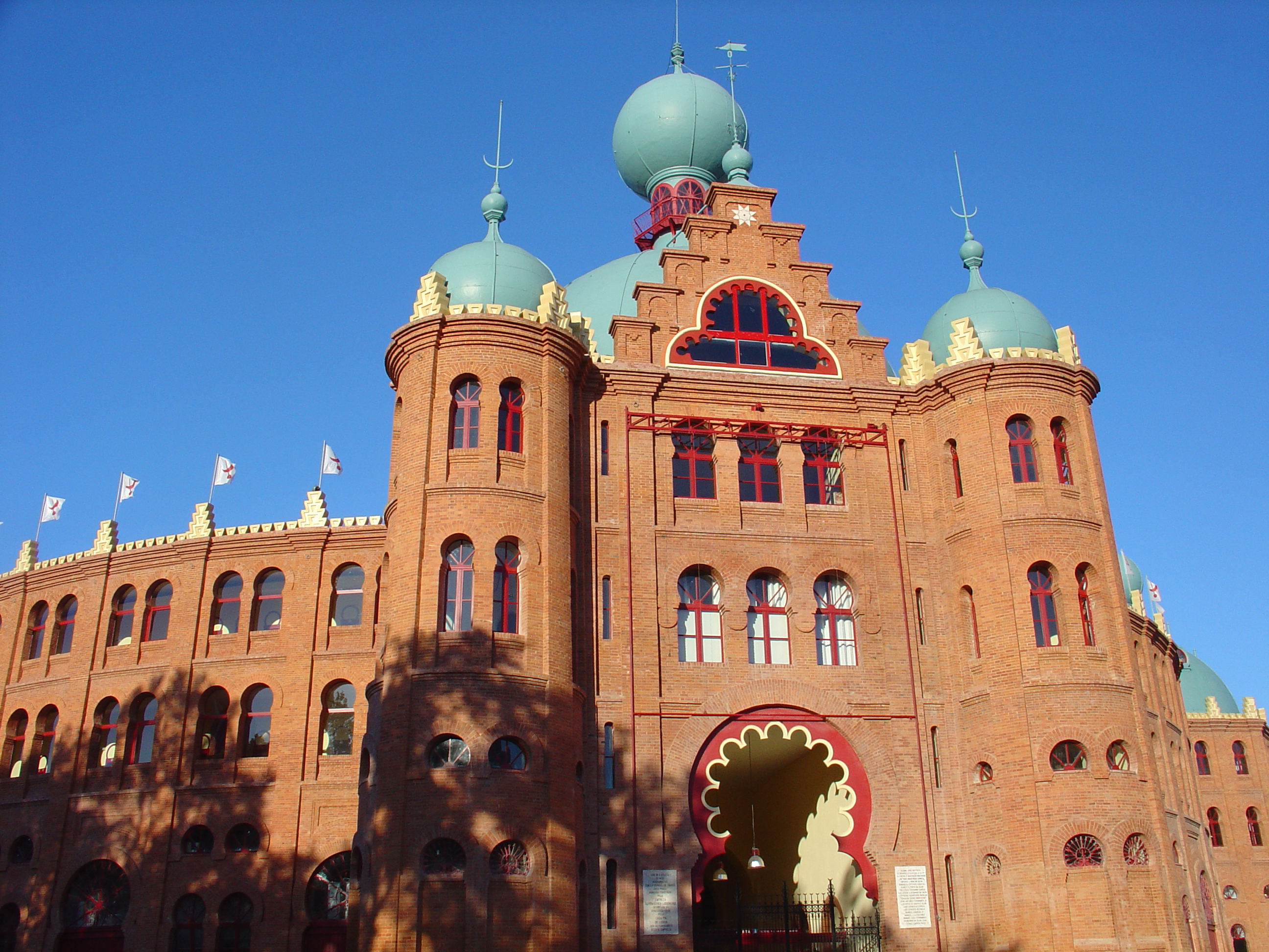 Campo Pequeno Bullfight ring in Lisbon, Portugal